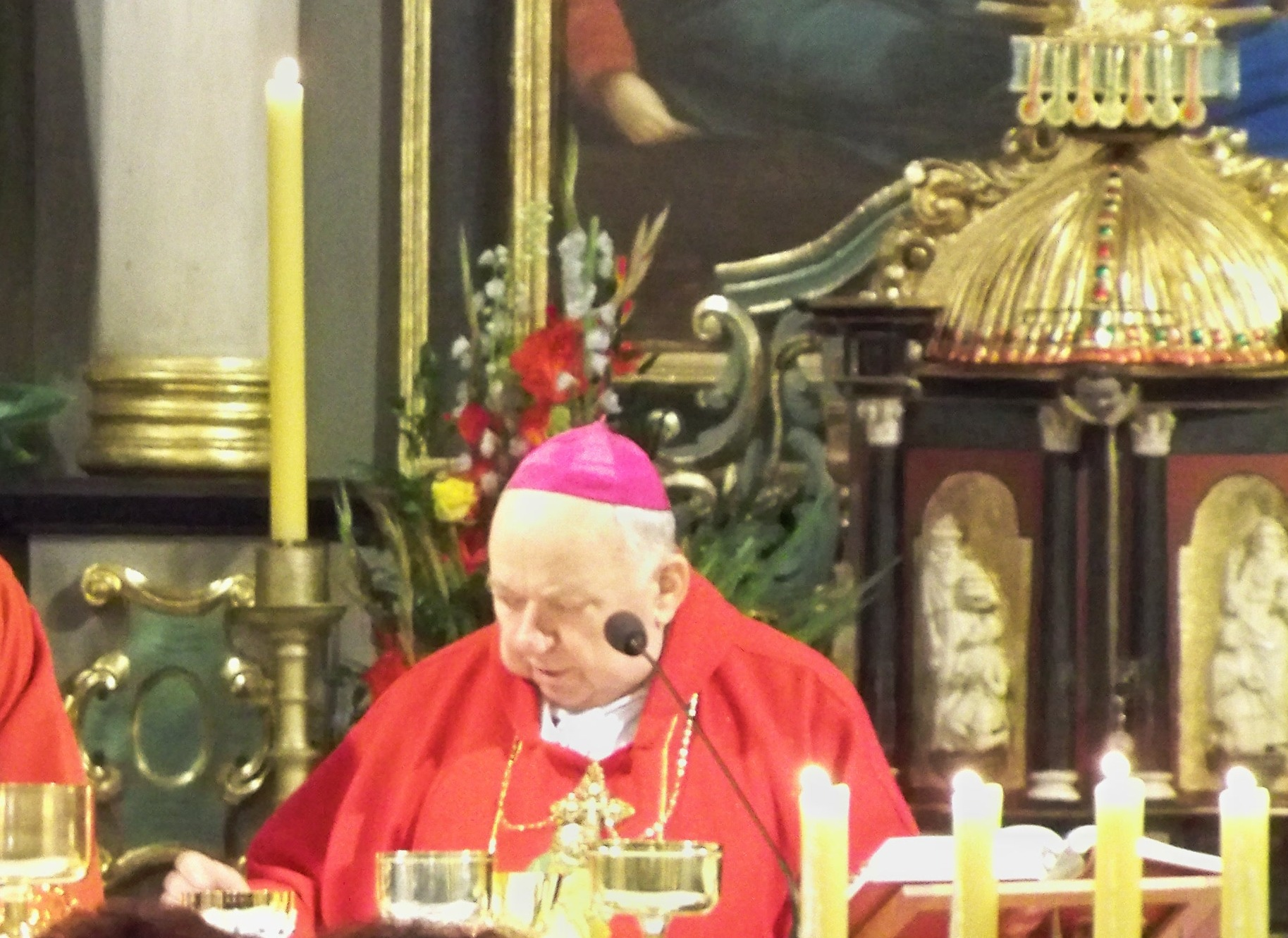 Bishop Jan Bernard Szlaga, Bishop Pelplin, the Diocesan Shrine of St. Apostle James the Elder in Lębork